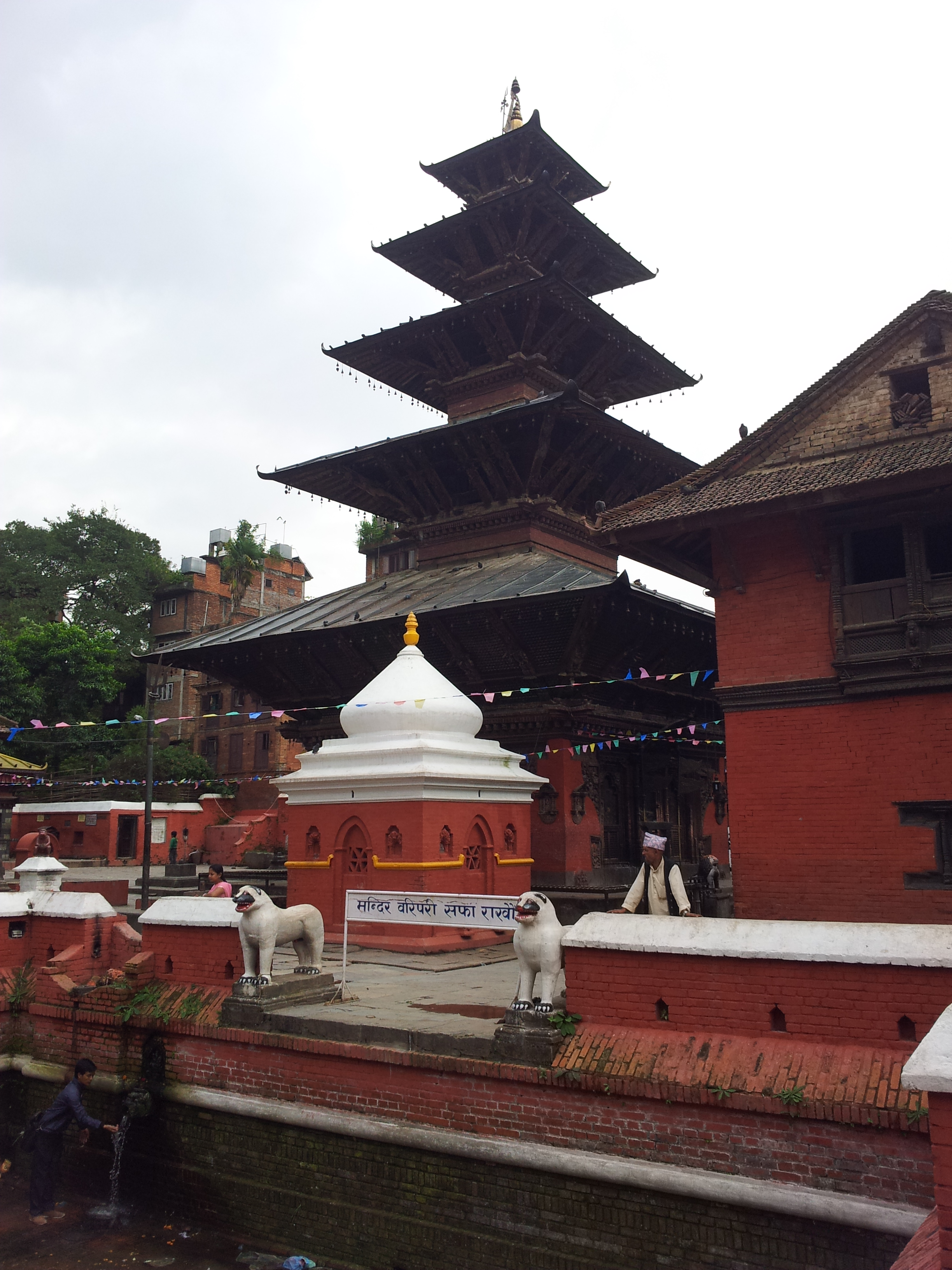 Bagalamukhi temple at patan